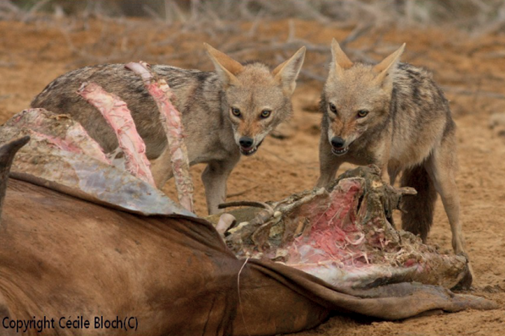 African golden wolves in Senegal. (photograph: C. Bloch).